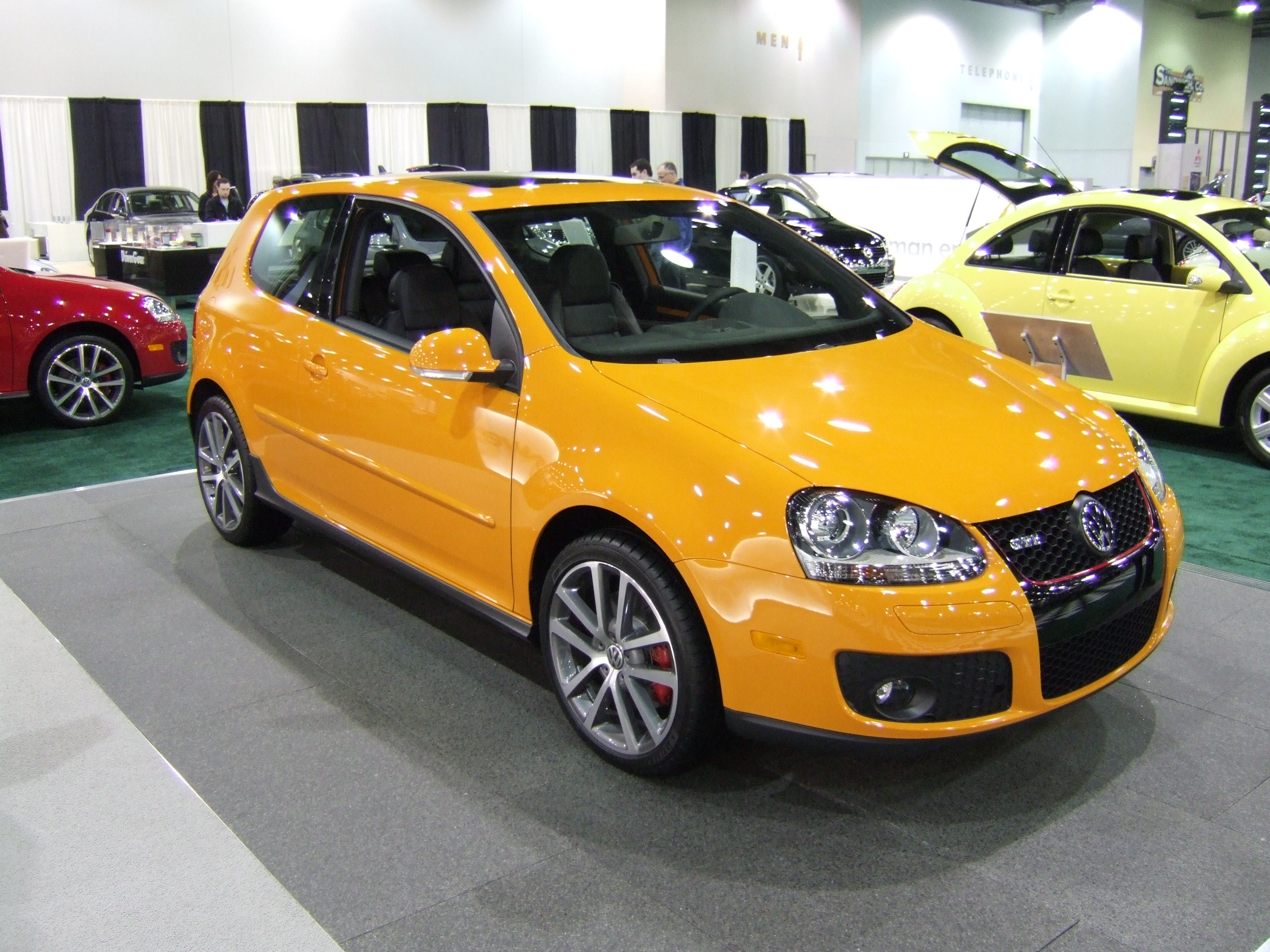 The 2007 Volkswagen GTI Fahrenheit special edition. This is car 213/1200. Self made photo, taken at the 2007 Columbus International Auto Show.